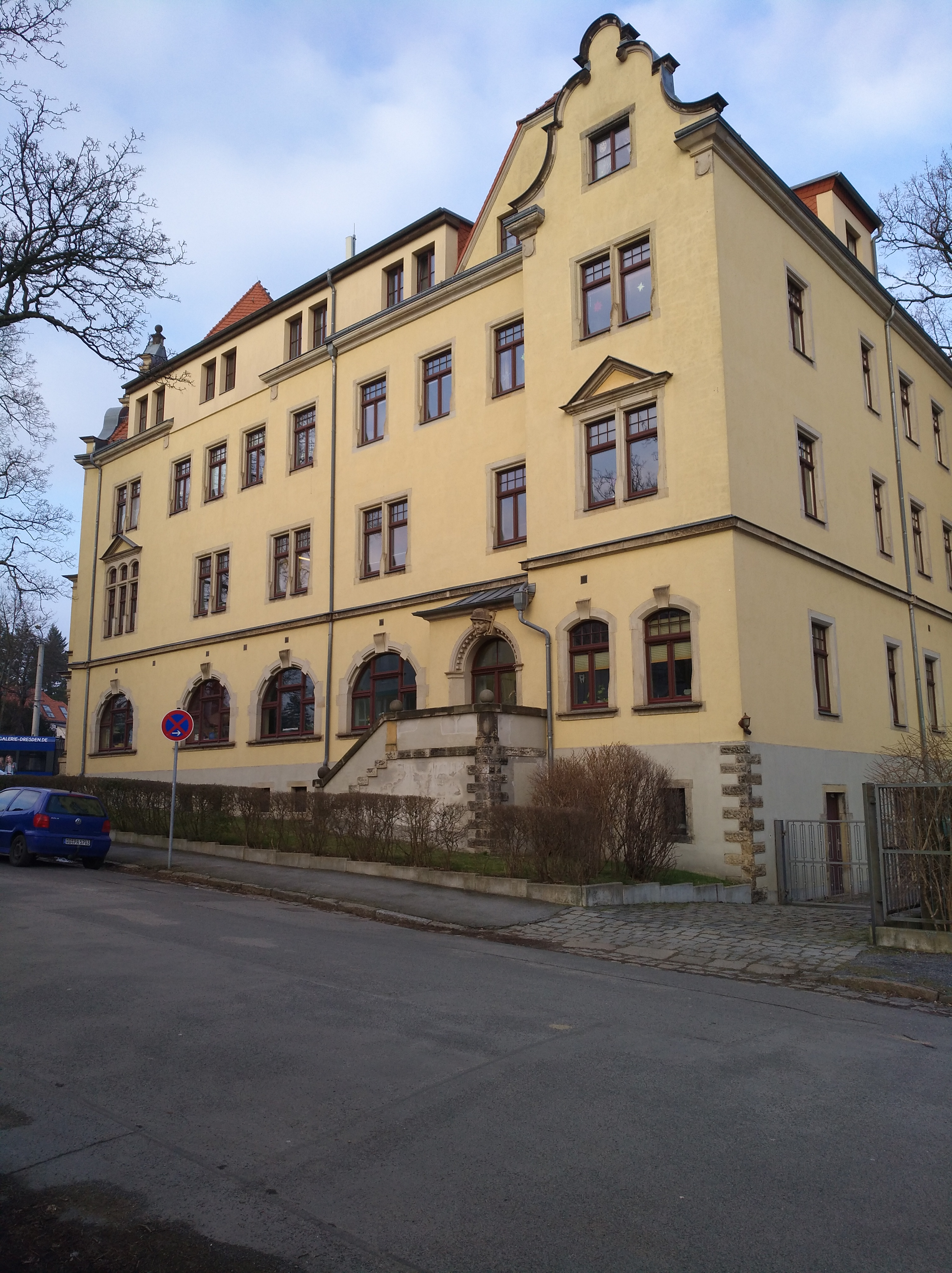 Former City Hall of Buhlau (near Dresden), situation of Feb. 2018